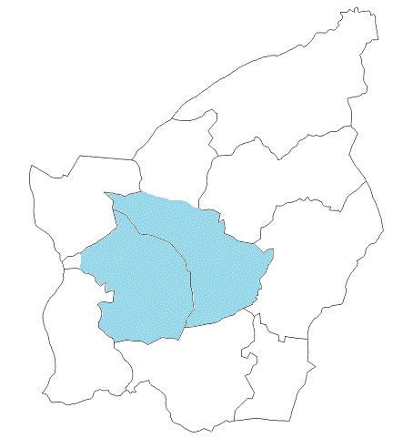 Maps of San Marino in 1100 with Borgo Maggiore